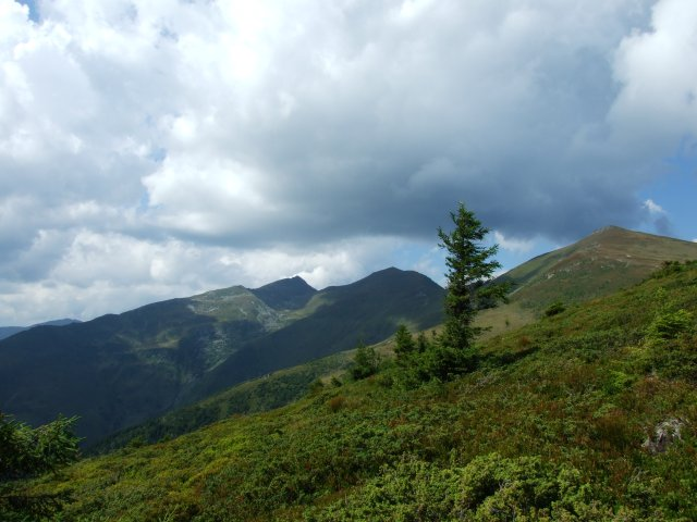 Peeks Ineu 2279m, Ineuţ 2222m, Roşu 2113m, Rodna Mountains, Romania. Tree is Larix decidua, low shrubs are Juniperus communis subsp. alpina.